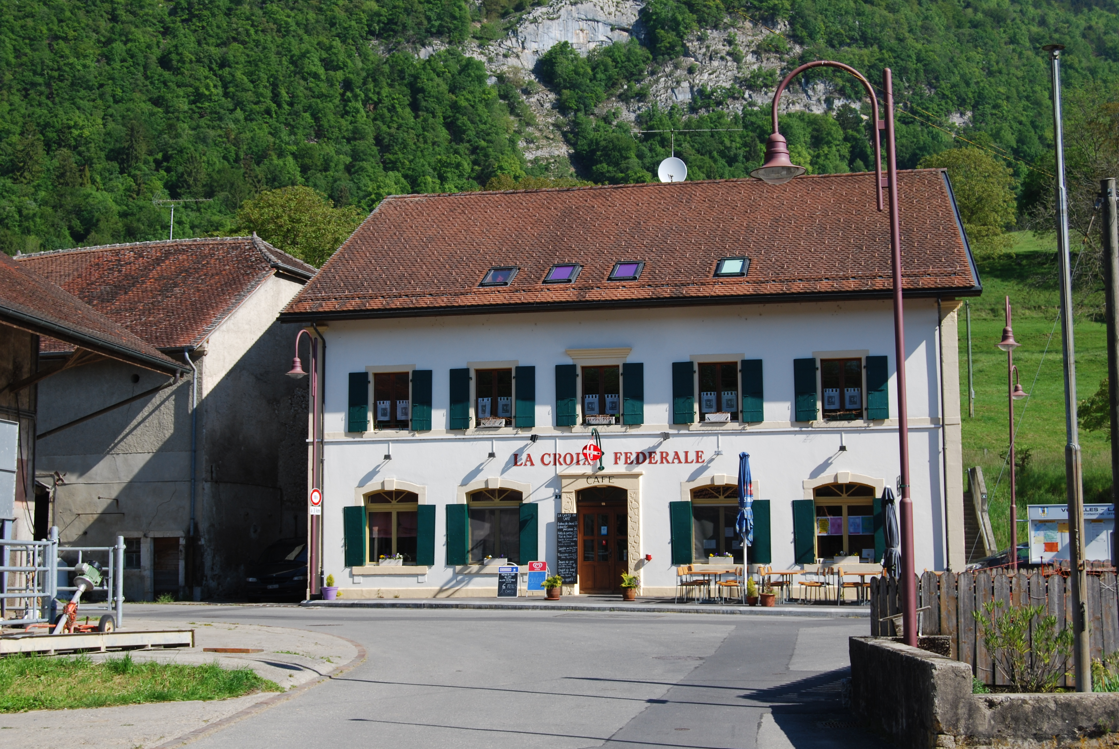 Vugelles-La Mothe, canton of Vaud, SwitzerlandEsperanto: Vugelles-La Mothe, Kantono Vaŭdo, Svislando